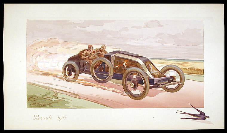 Renault 1908 Paris: M.M., 1908. Hand-coloured pochoir print. Image size (including text): approximately 14 5/8 x 26 1/8 inches . Sheet size: approximately 17 1/2 x 30 5/8 inches. This is the Coalshovel-nosed Renault, which was very popular and successful in 1906 and 1907. In 1908, the car was less formidable, but could reach speeds of 100 miles per hour. Hungarian Francois Szisz drove his last race for Renault in 1908, in this beautiful car.`